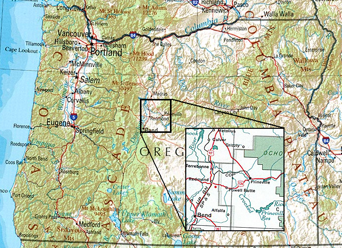 Situation of the City of Prineville Railway in Oregon